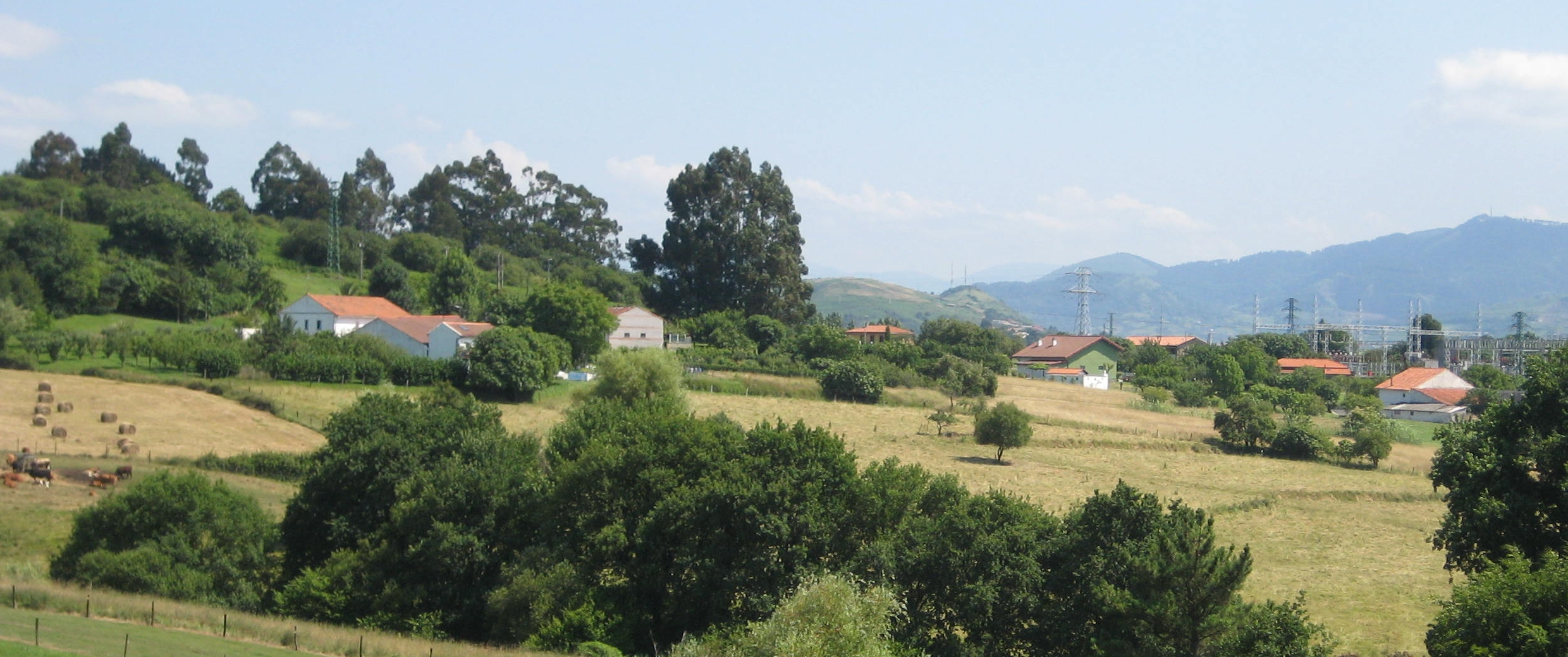 Neighbourhood of Santsoena in Leioa, Biscay.